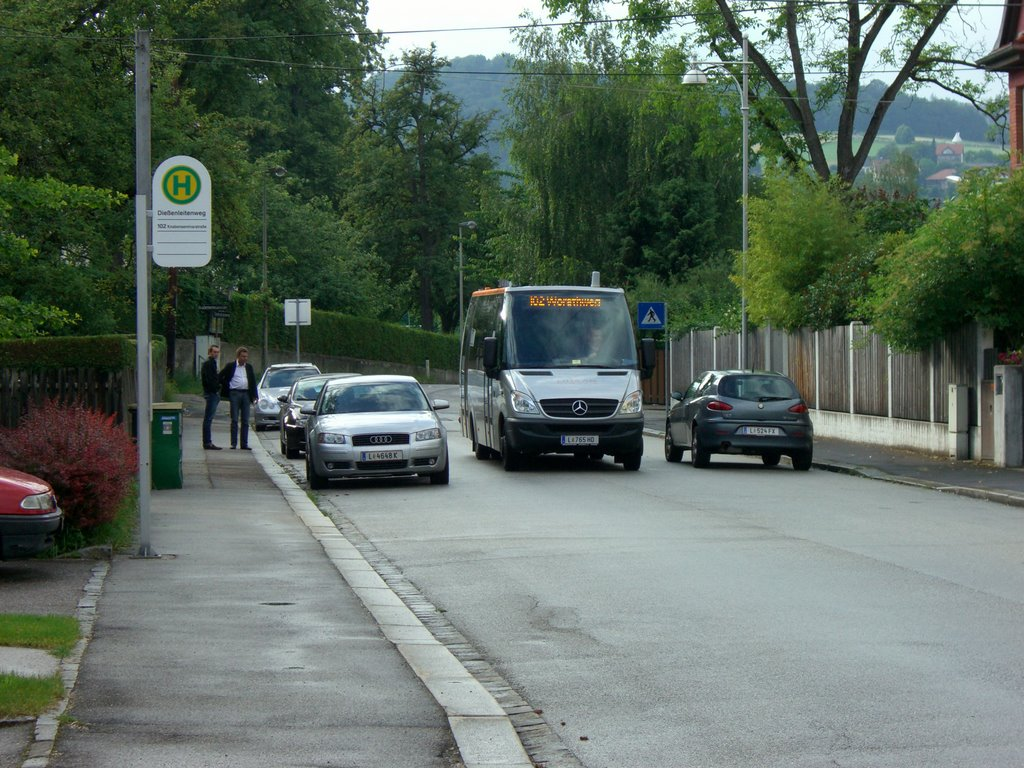 A Minibus by type Mercedes-Auwärter Citystar on the Line 102 in Linz by the Stop Dießenleitenweg.